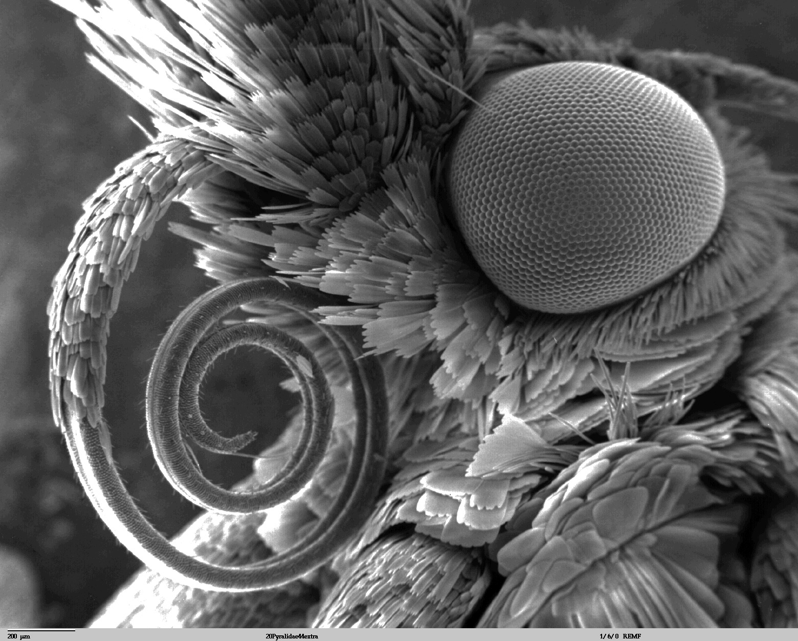 Scanning electron microscope image of a pyralidae moth. Side view of head.